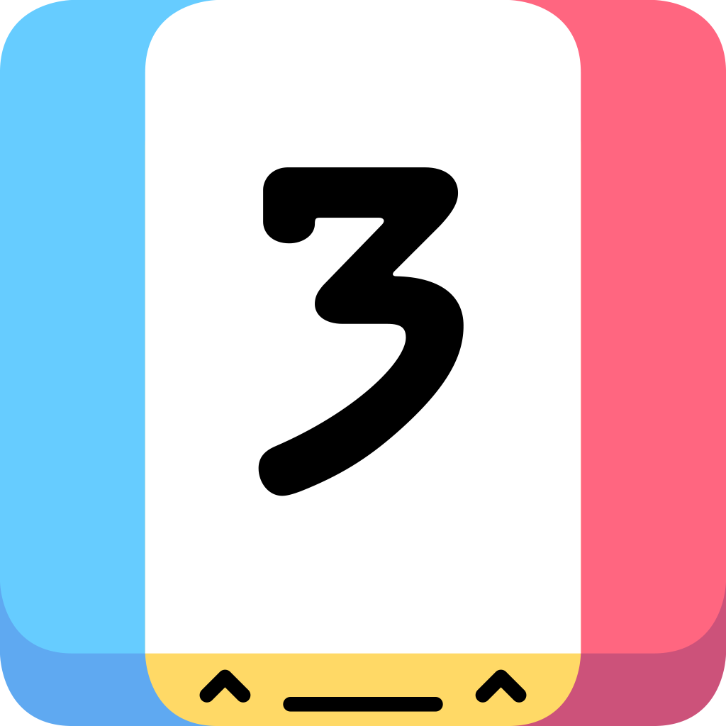 Threes! app icon with rounded corners